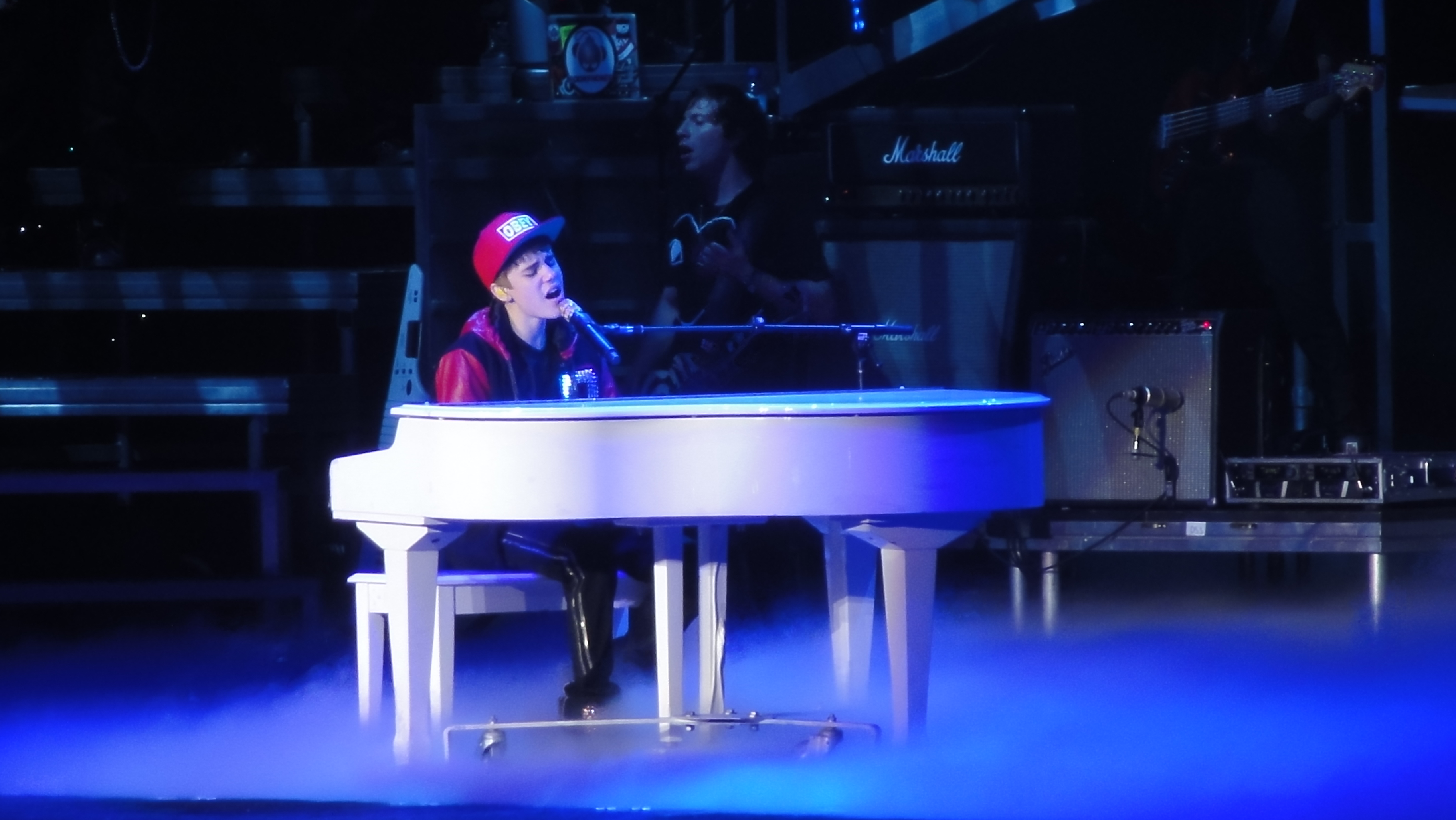 Bieber at his concert in Ahoy Rotterdam (The Netherlands)